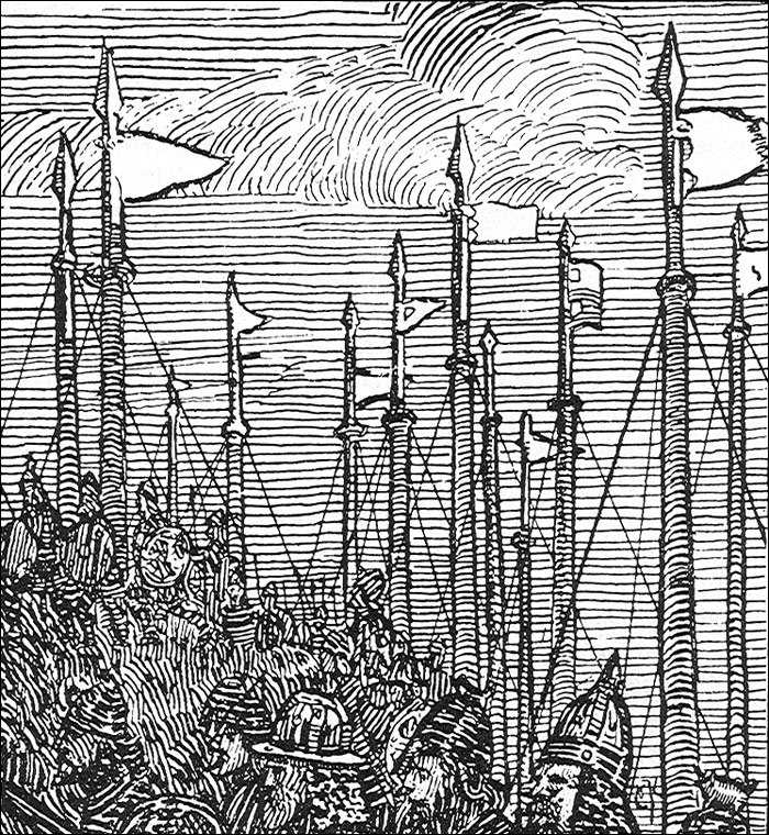 Illustration from: Storm, G , ed. (1899) Norges Kongesagaer, Vol. 2, Heimskingla II, I.M. Stenersens Forlag, page 544. The caption reads: "Da Sol randt op, gik Magnus og hans Mænd lland". The illustration depicts the forces of Magnus Barefoot in Ireland.